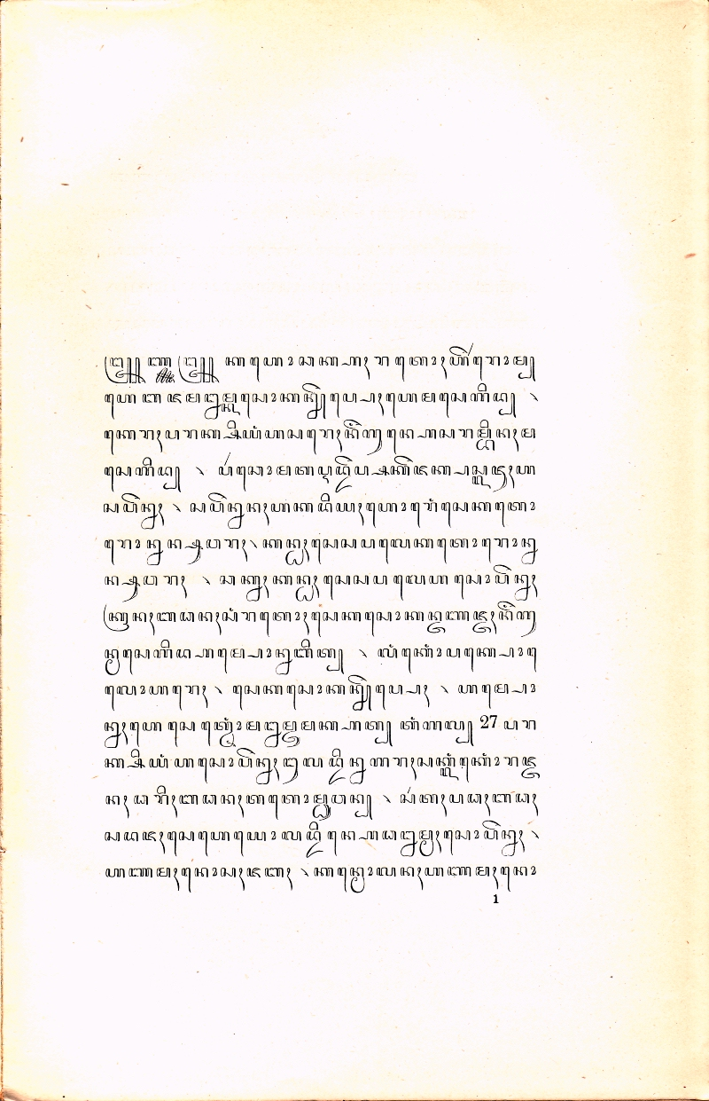 a page from a Madurese book (Raden Segara) in Javanese script